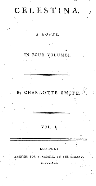 Smith, Charlotte Turner. Celestina. Vol. 1. London: Printed for T. Cadell, 1791.